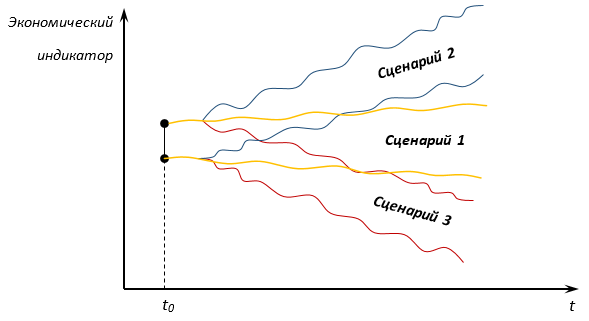 This describes the principle of uncertainty in economic indicators.